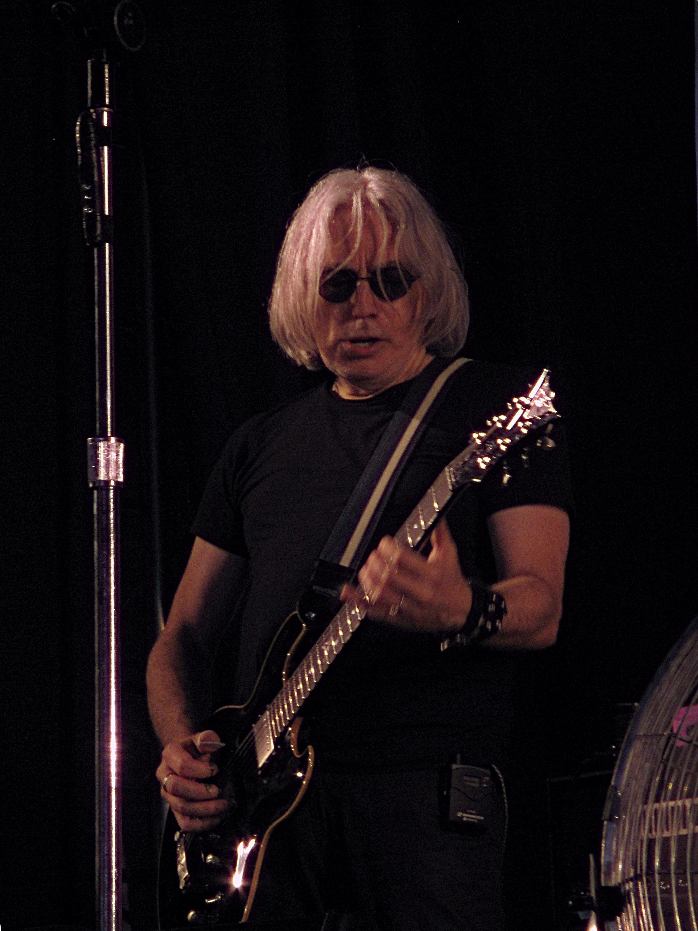 Chris Stein performing with Blondie at the Zwarte Cross festival on Friday July 15th 2011 in Lichtenvoorde the Netherlands